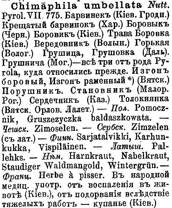 Botanical Dictionary by N. I. Annenkov